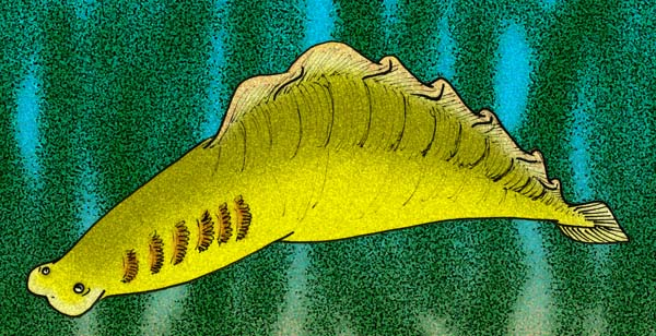 Reconstruction of the primitive chordate Haikouella lanceolata, from late Early Cambrian China